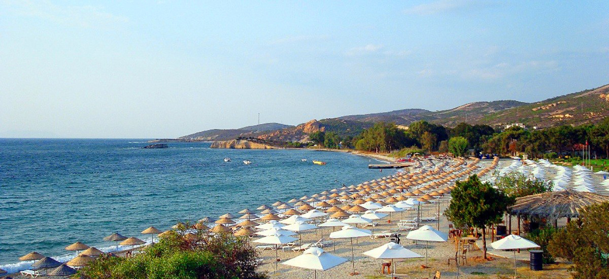 Foça (ancient Phocaea) near İzmir on Turkey's Aegean coast